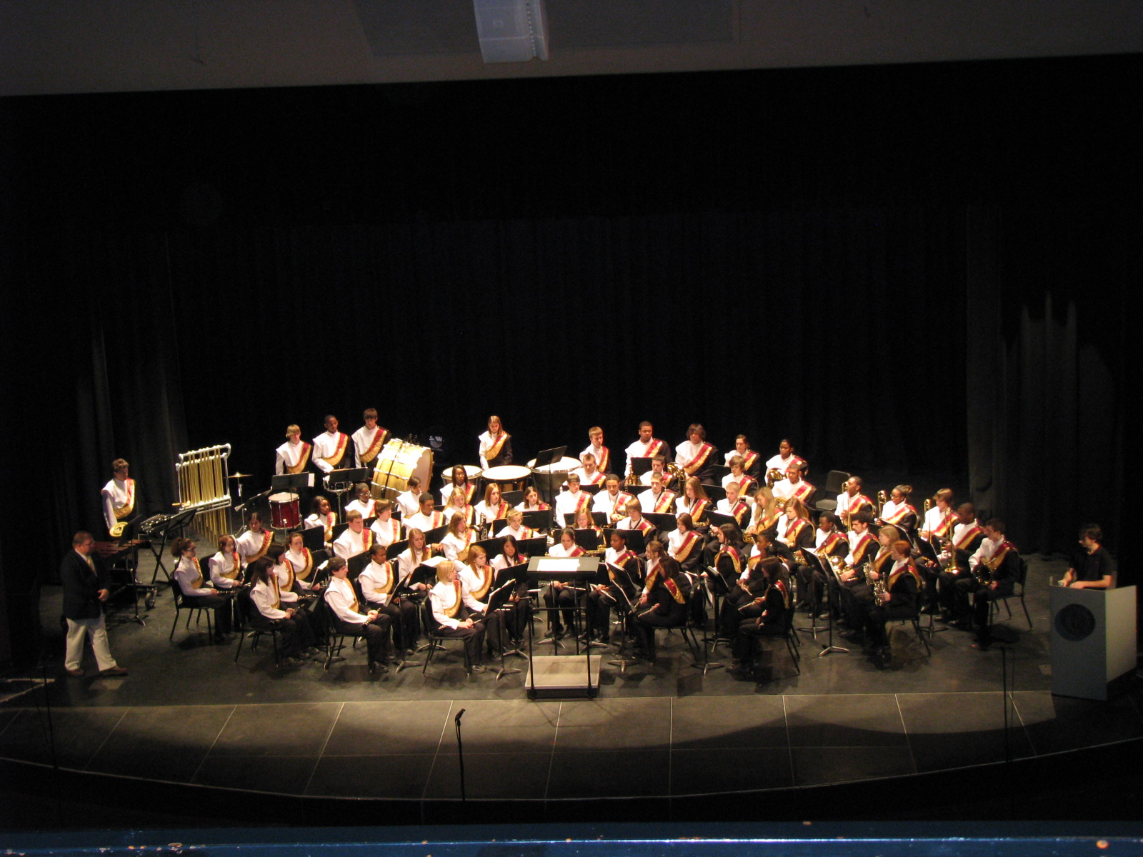 This is the Northview High School Band from Dothan Alabama at District Contest at Troy University.